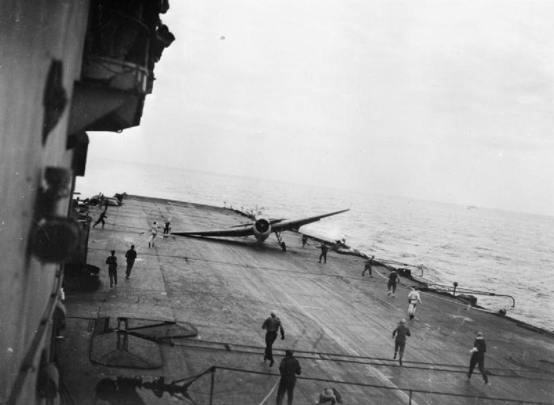 The Royal Navy during the Second World War A Grumman Avenger of 857 Squadron, Fleet Air Arm returned from one of the strikes against the Sakishima Islands and landed on with only one wheel down to make an almost perfect landing on board HMS INDOMITABLE. The aircraft was only slightly damaged. These operations were in support of the American invasion of Okinawa.